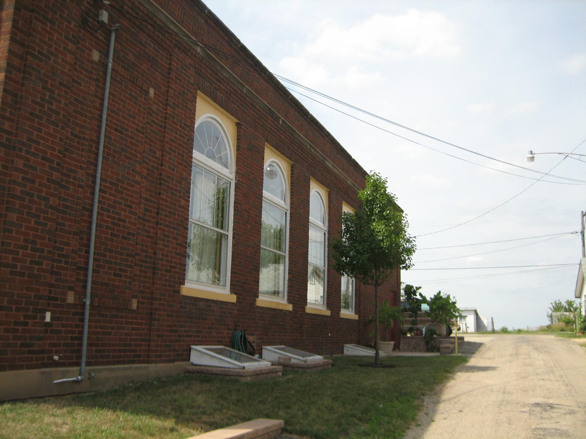 People's State Bank, Orangeville, Illinois, USA. U.S. National Register of Historic Places.